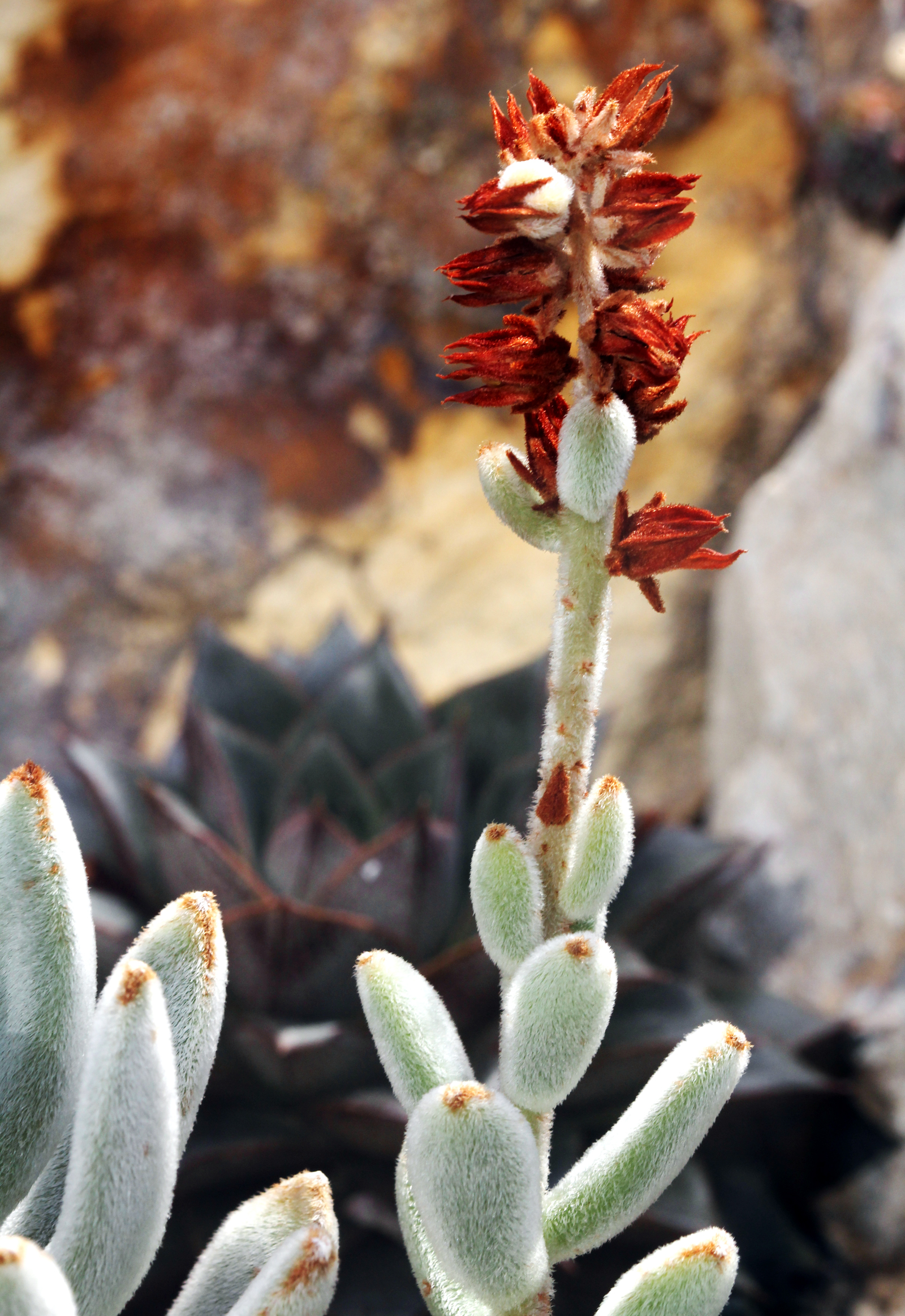 Flowers of succulent plant Echeveria leucotricha, The Botanical Gardens of Charles University, Prague, Czech Republic